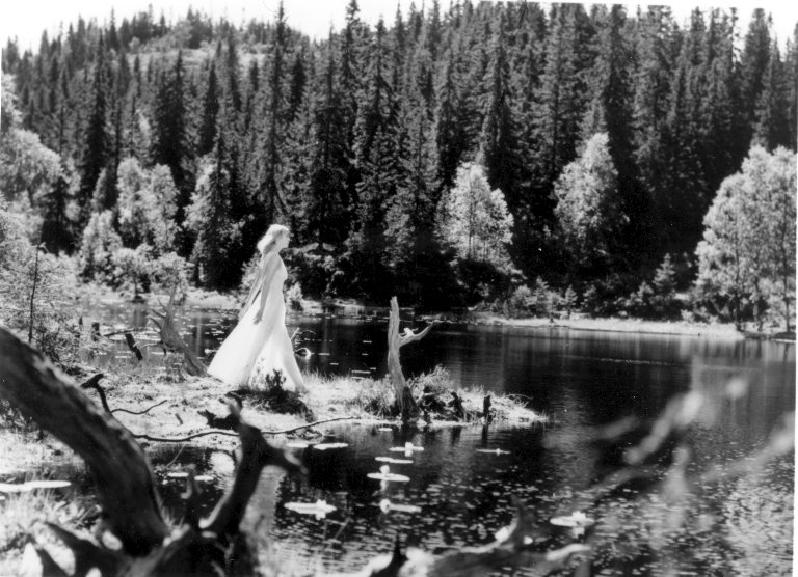 Scene from the Norwegian movie De dødes tjern, showing actress Henny Moan walking by a tern.